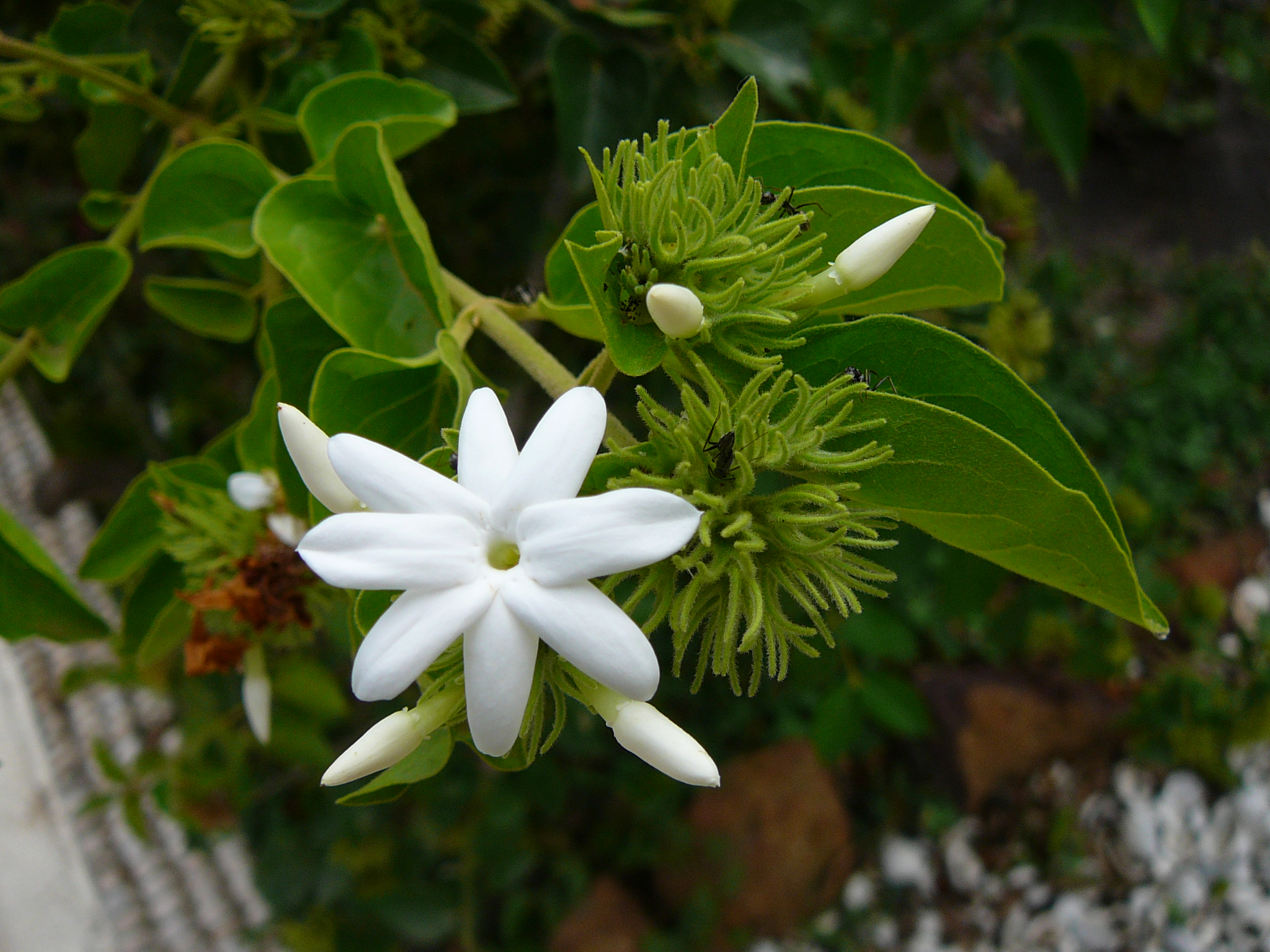 Downy Jasmine